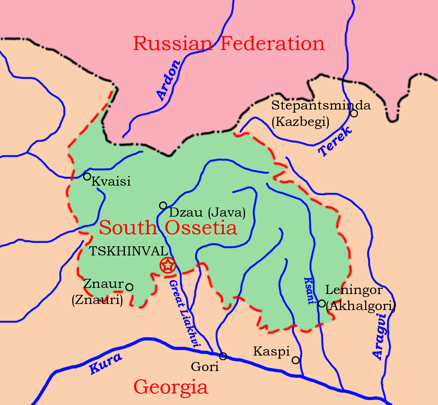 Map of South Ossetia